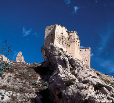 Self-taken photograph of the castle that Don Pedro Fajardo y Chacón, Marquis of Vélez, built at Mula in Murcia (Spain)